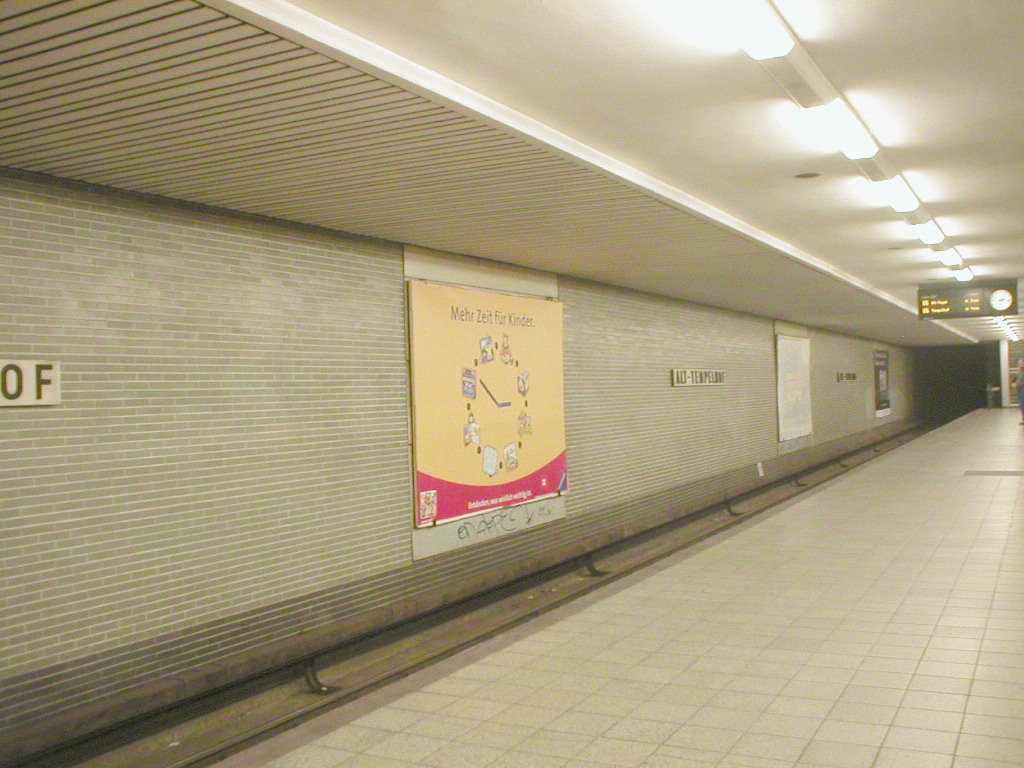 Alt-Tempelhof underground station; Berlin, Germany